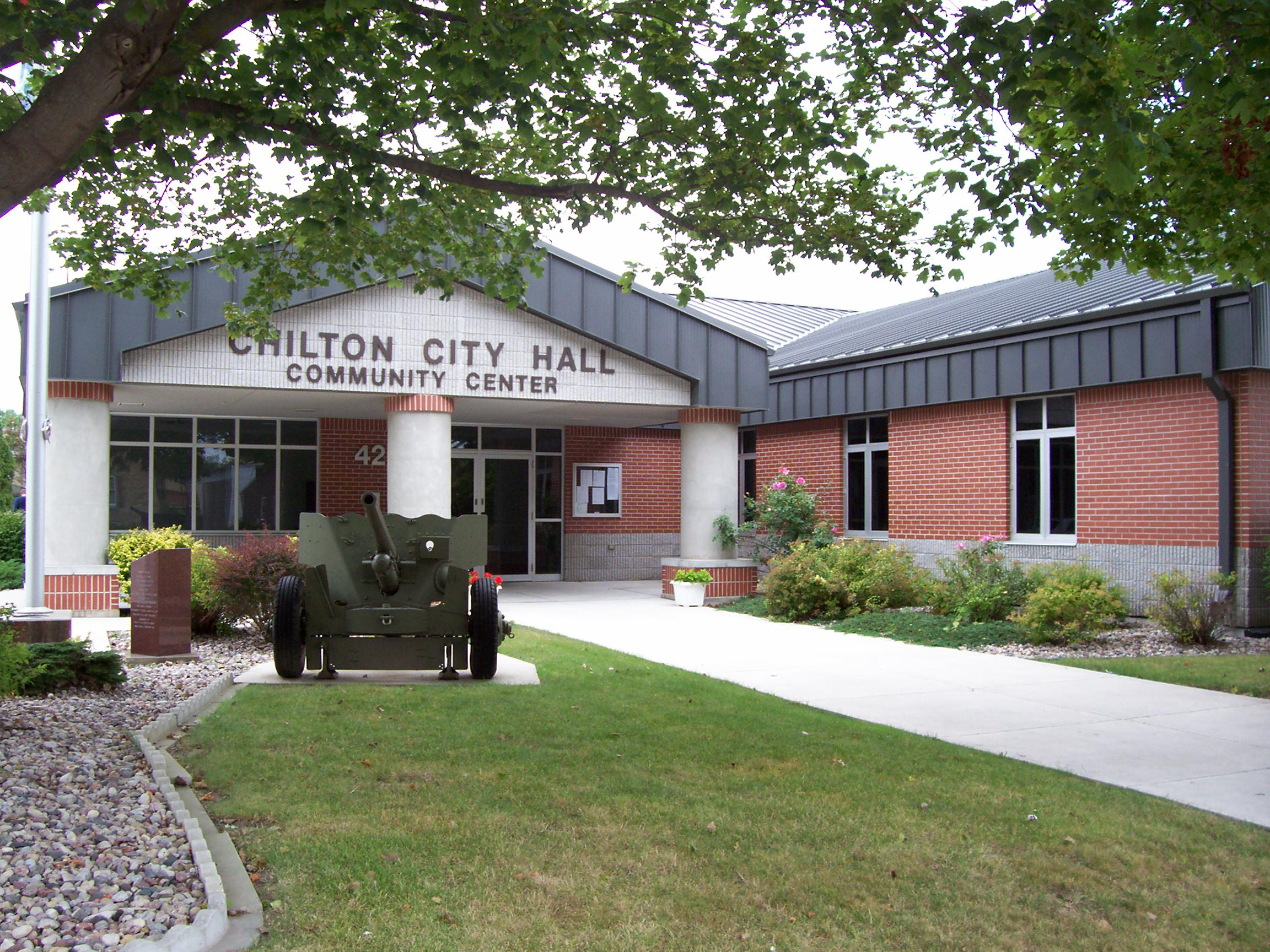 A picture of the community center in Chilton, Wisconsin. The city hall and police station are housed inside the building. This image was taken September 10, 2006 by User:Royalbroil Category:Images of Wisconsin